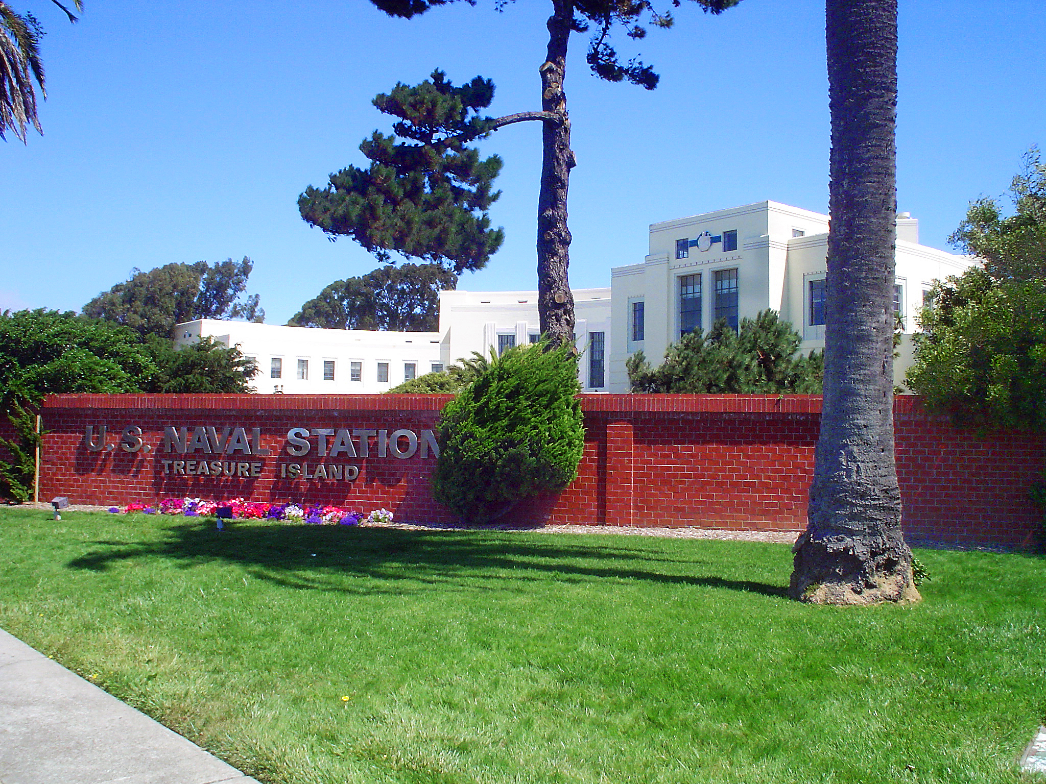 U.S. Naval Station Treasure Island Administration Building, Treasure Island, San Francisco, CA